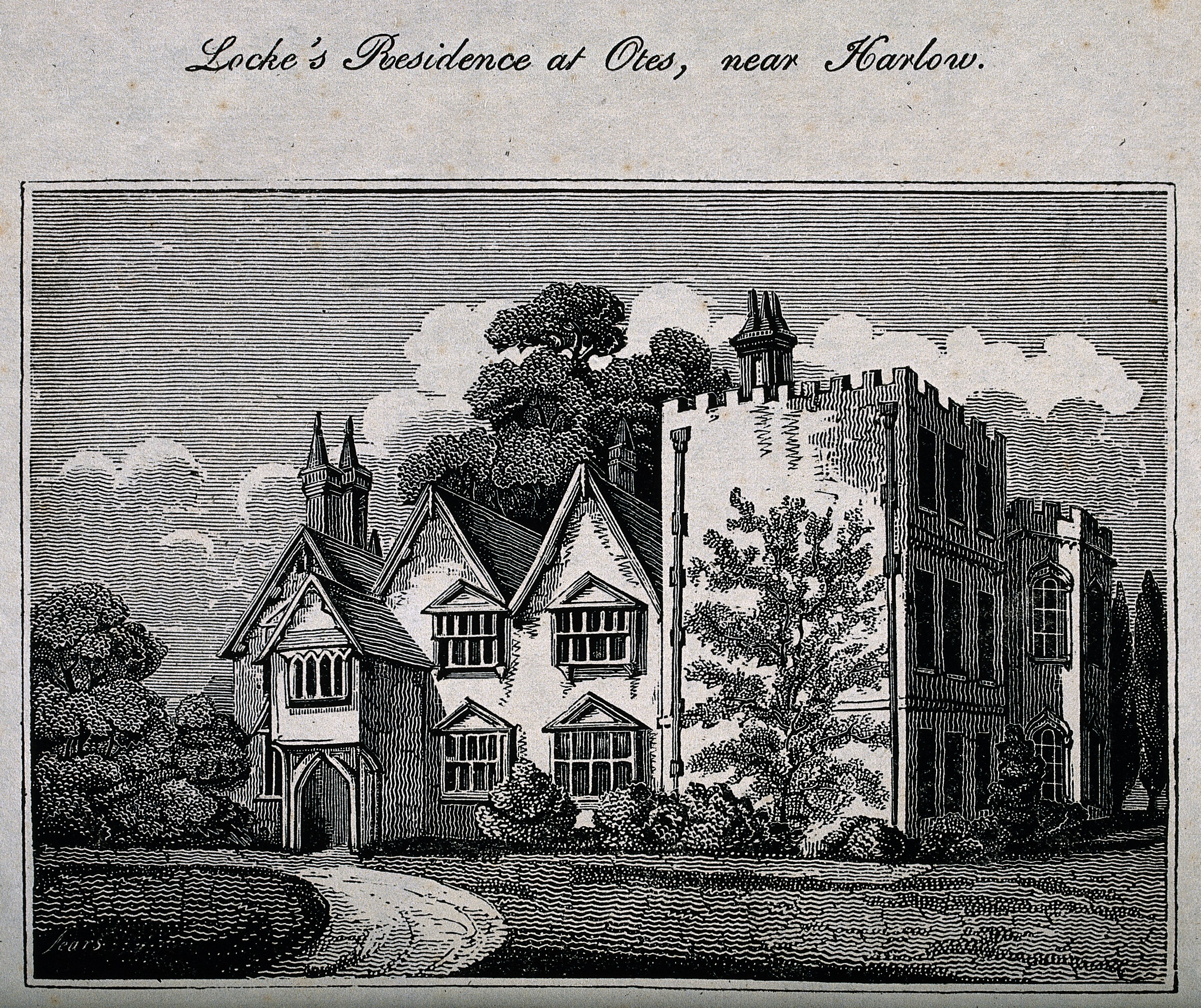 Engraving of Otes Manor House at High Laver, near Harlow, Essex, England where John Locke spent the last fourteen years of his life. Iconographic Collections Keywords: John Locke